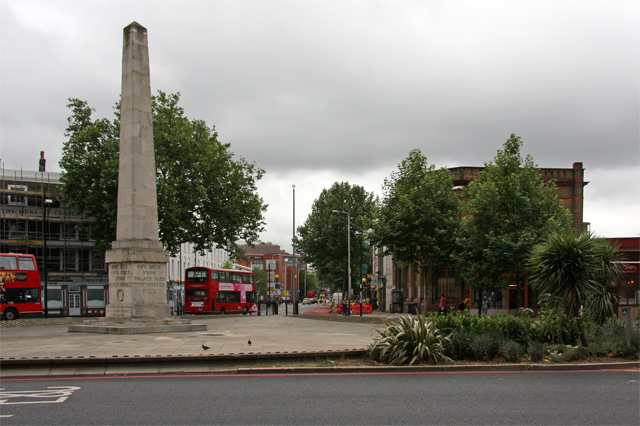 St. George's Circus Looking across towards London Road. The obelisk in the centre gives distances. On the nearest side it reads, One mile from Palace Yard Westminster Hall. The adjacent face reads One mile CCCL feet from Fleet Street.